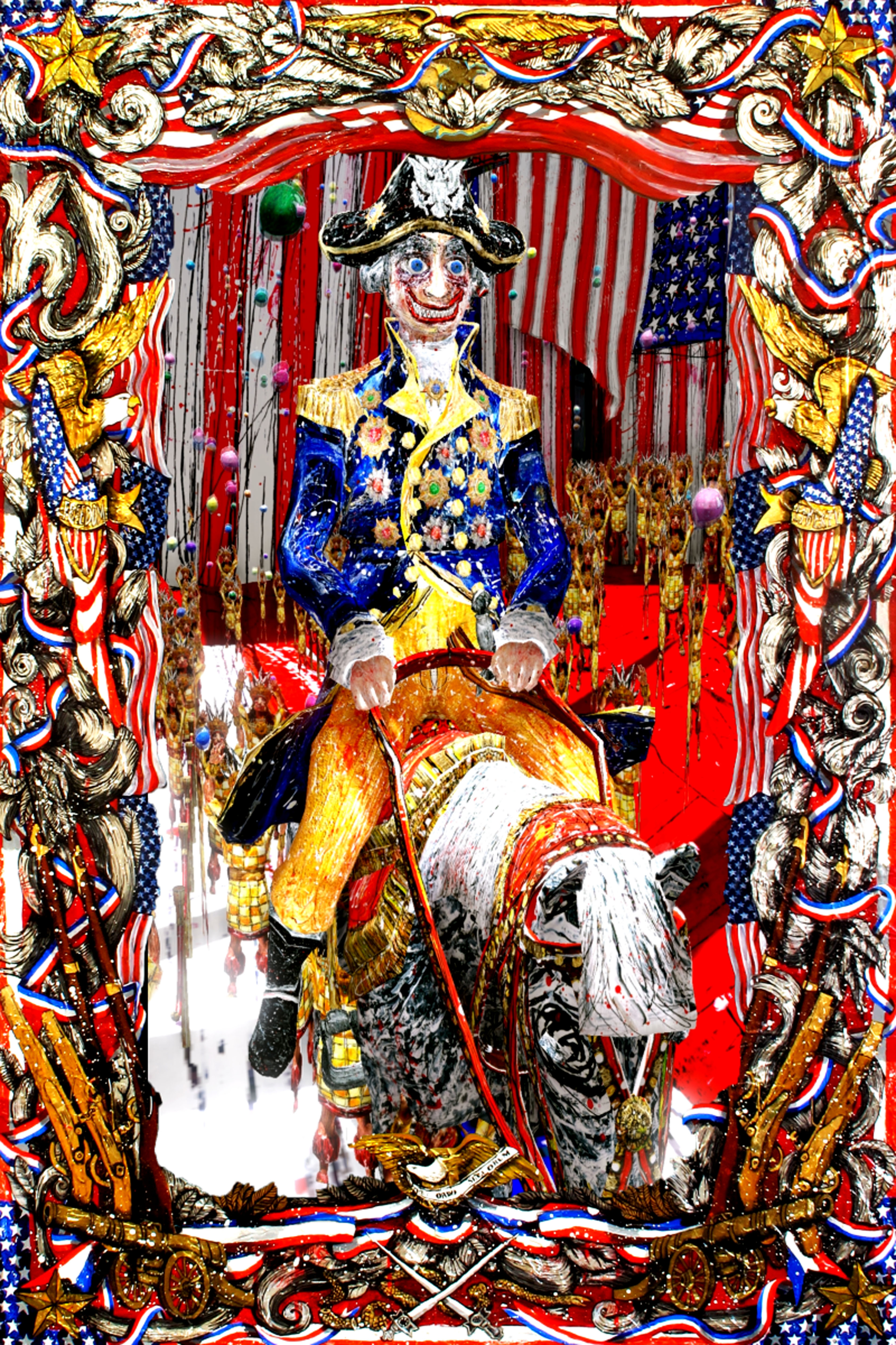 acrylic, gold leaf, mixed media with LCD screen and video 34 x 52""